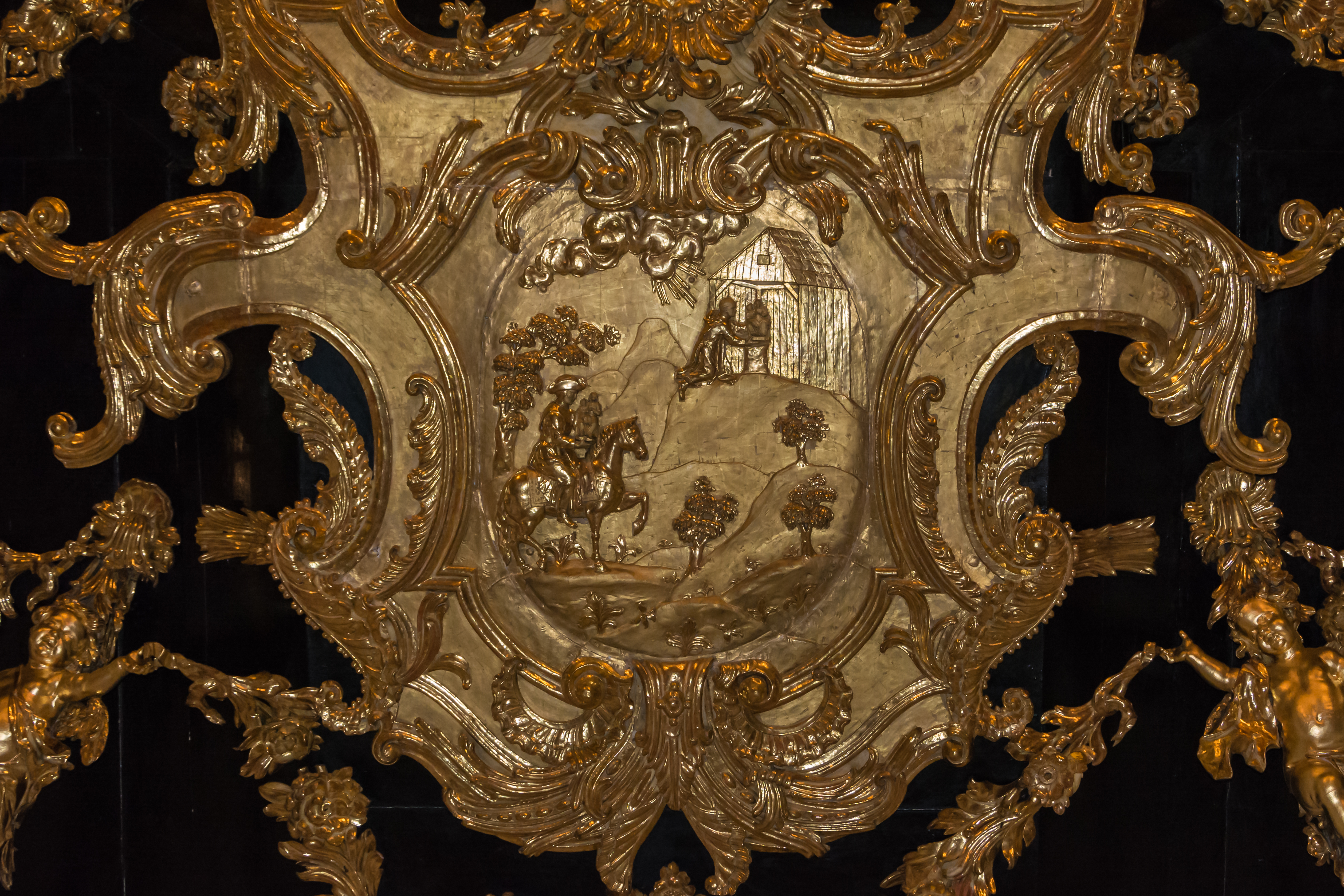 Relief at the organ gallery of Mariazell Basilica, Styria, Austria: Legend of founding Mariazell by the monk Magnus